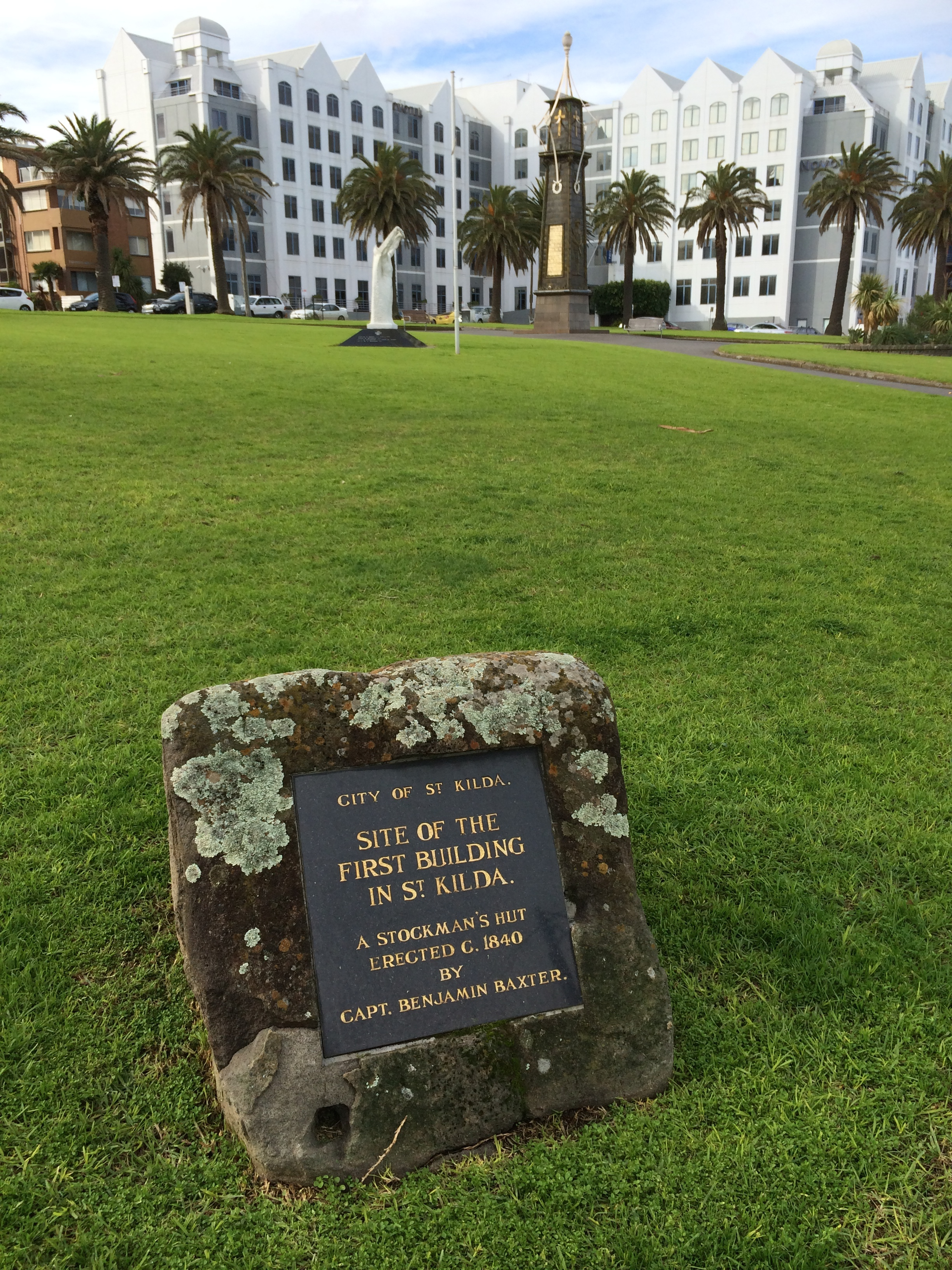 Site of First Building in St Kilda Melbourne Plaque Albert Square July2014 Inscription: City of St Kilda. Site of First Building in St Kilda. A stockman's hut erected c1840 by Capt. Benjamin Baxter